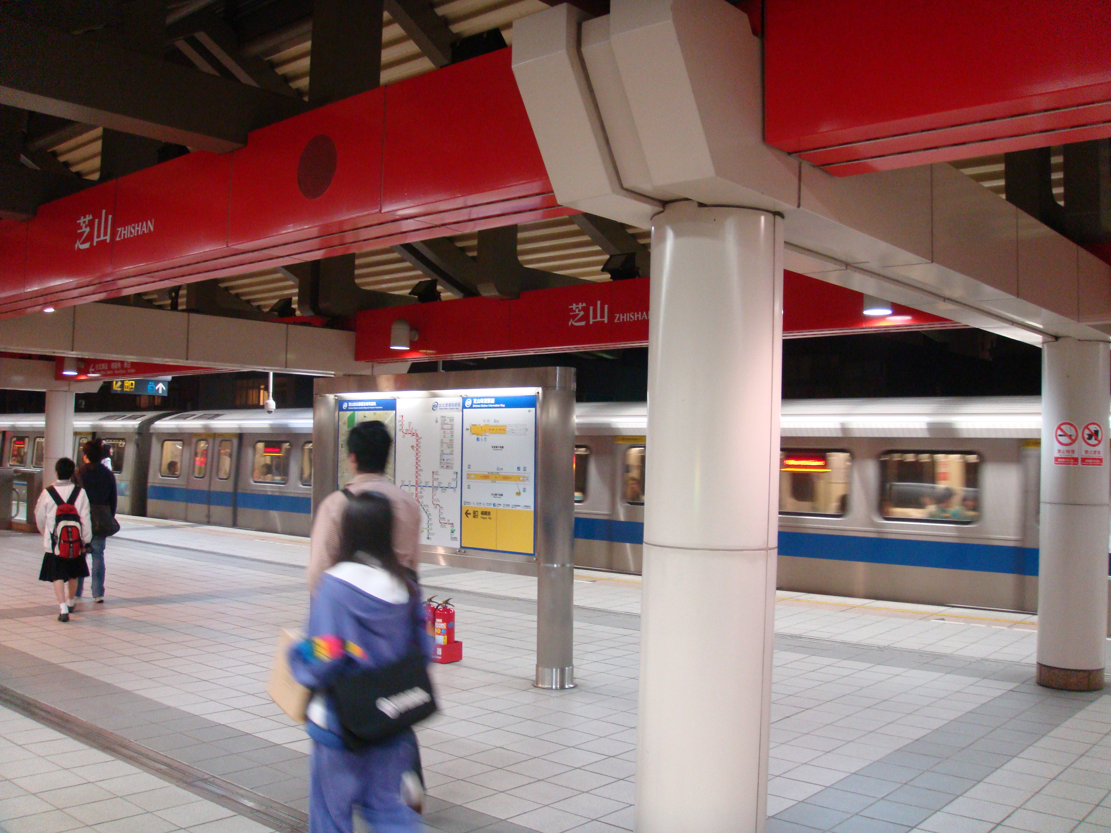 Night in Platform 2, Zhishan Station, Taipei Metro.中文（台灣）: 台北捷運芝山站第二月台夜景。